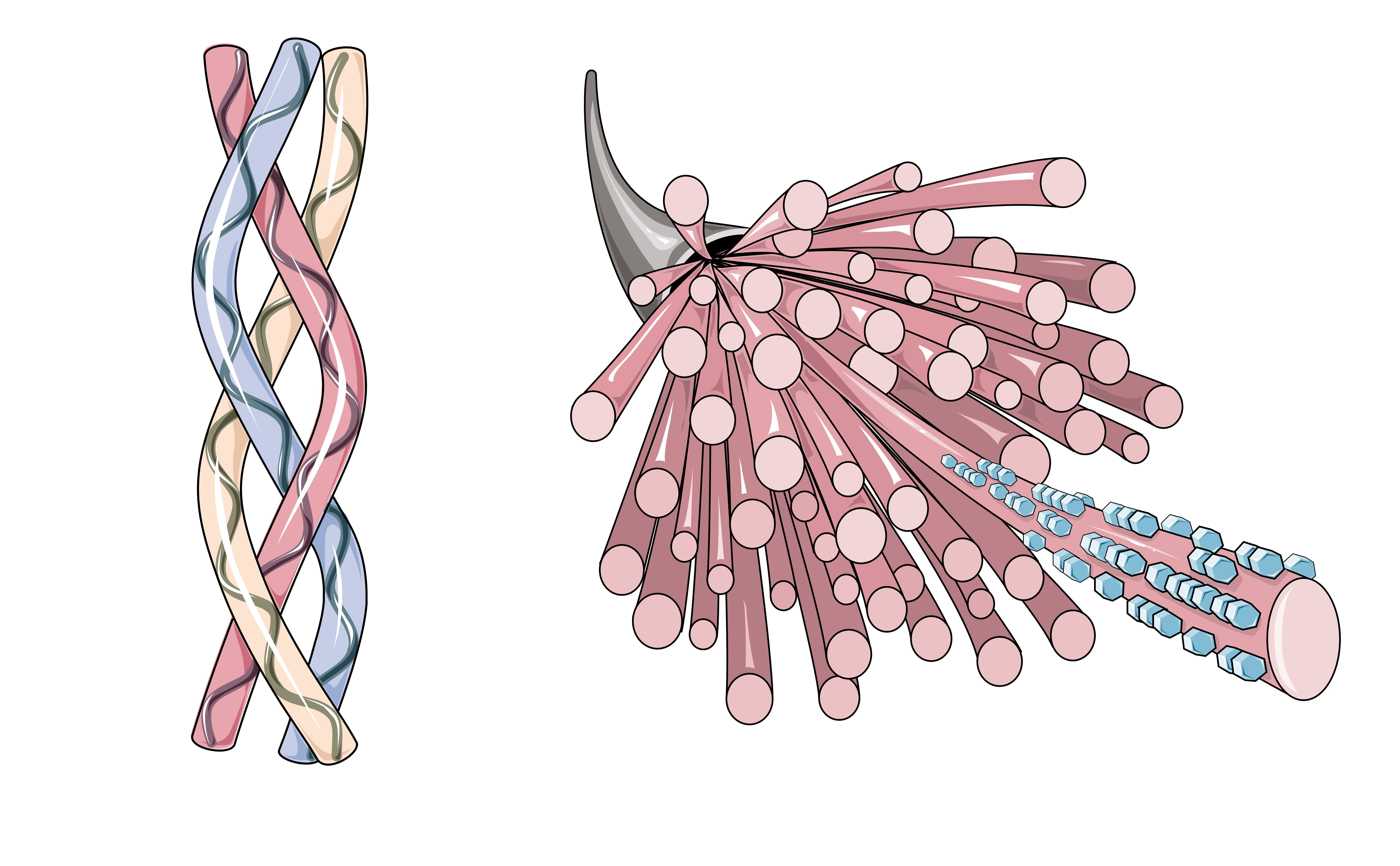 Skeleton and bones - Collagen